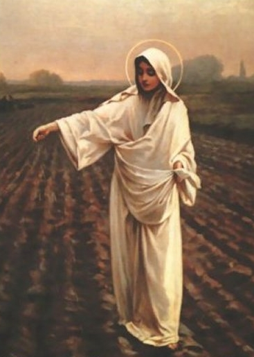 Our Lady of the Prairie